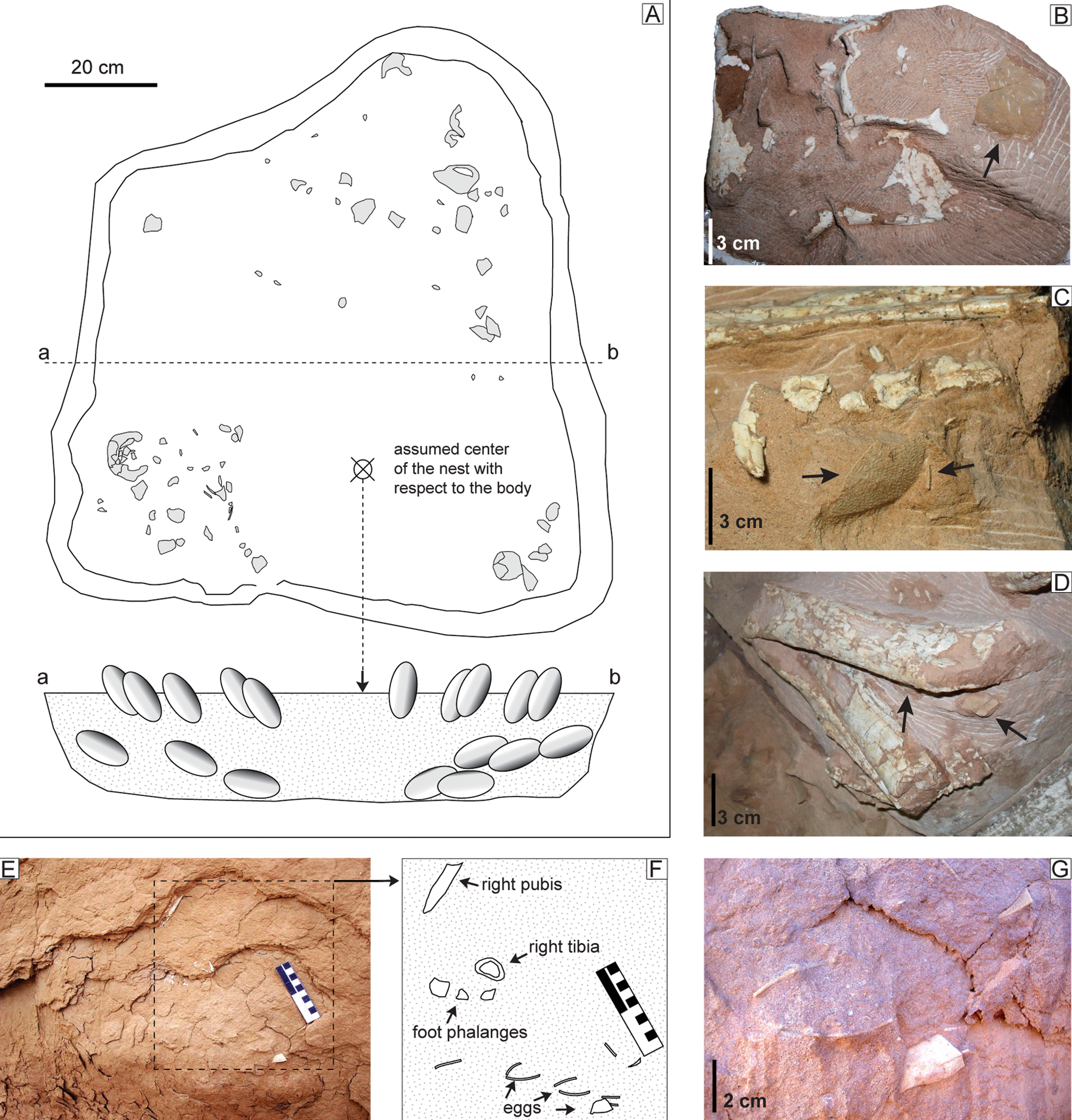 The nest of Nemegtomaia barsboldi, MPC-D 107/15. A, disposition of preserved eggs within the nest. Eggshells have been recovered under the skull (B), left pes (C) and leg (D), suggesting the direct apposition of the oviraptorid on top of the eggs. During the early excavation of the nest, it was possible to document a lower layer of eggs lying approximately 10 cm below the body (E–G).